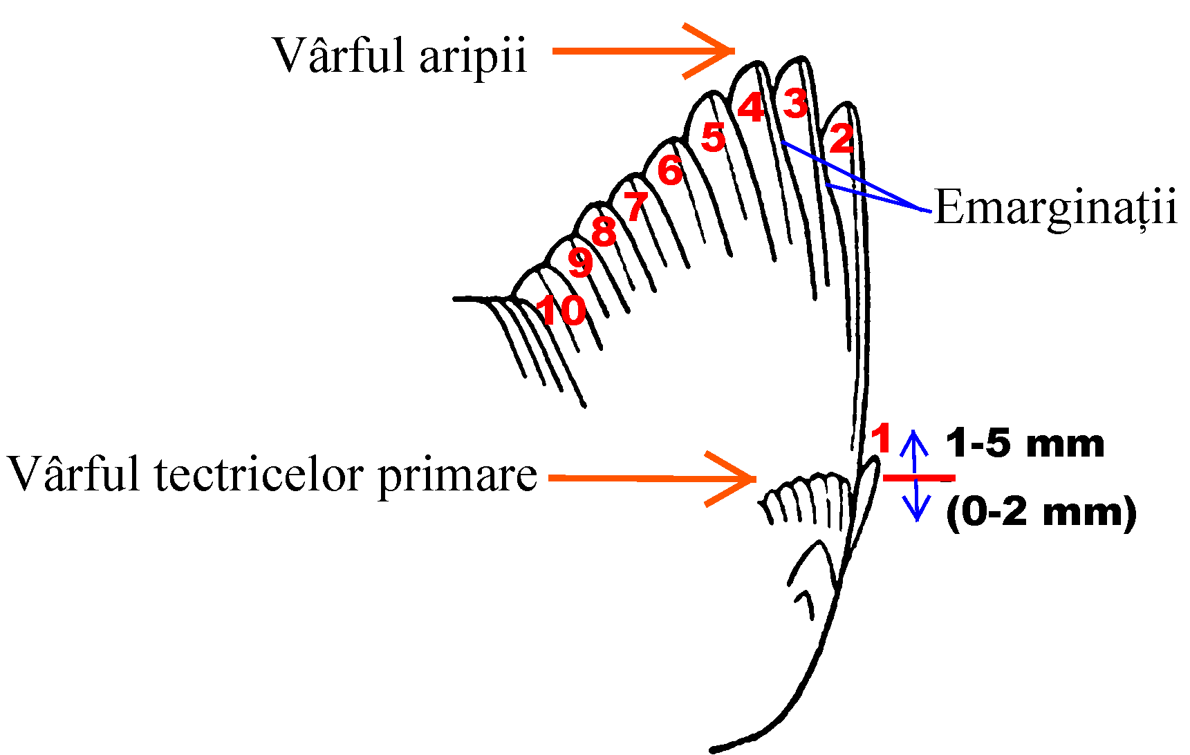 Luscinia megarhynchos. Wing formula ro